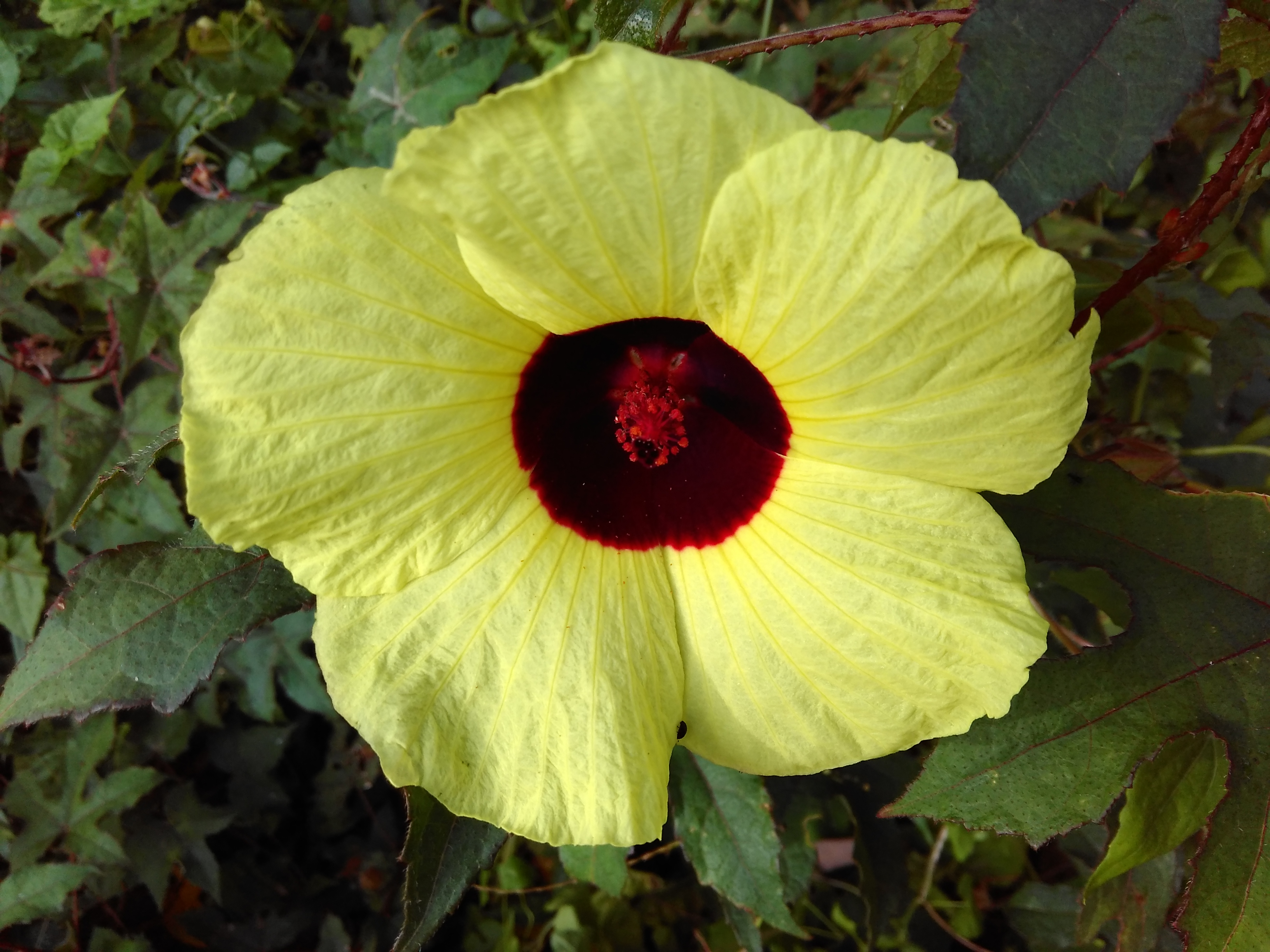 Wild Hibiscus or Hibiscus hispidissimus